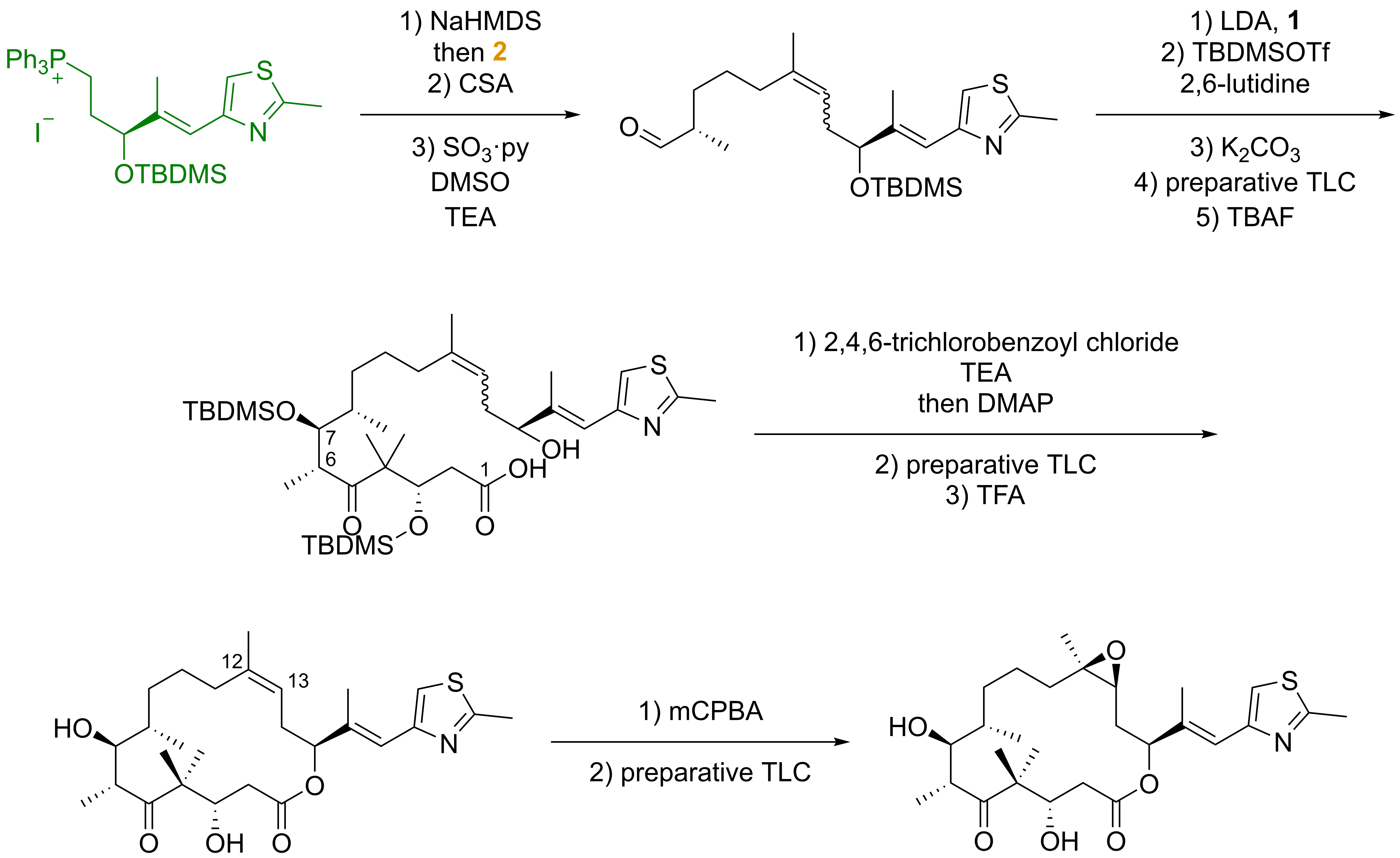 Total synthesis of epothilone B by Kyriacos Nicolaou et al. in 1997. The file was made by ChemBioDraw Ultra 13. As a reference, the digital object identifier is This image replaces the original one ( made by Cuigy because this original version is in graphics interchange format having lower quality. In additions, the reagents do not have subscripted numbers.